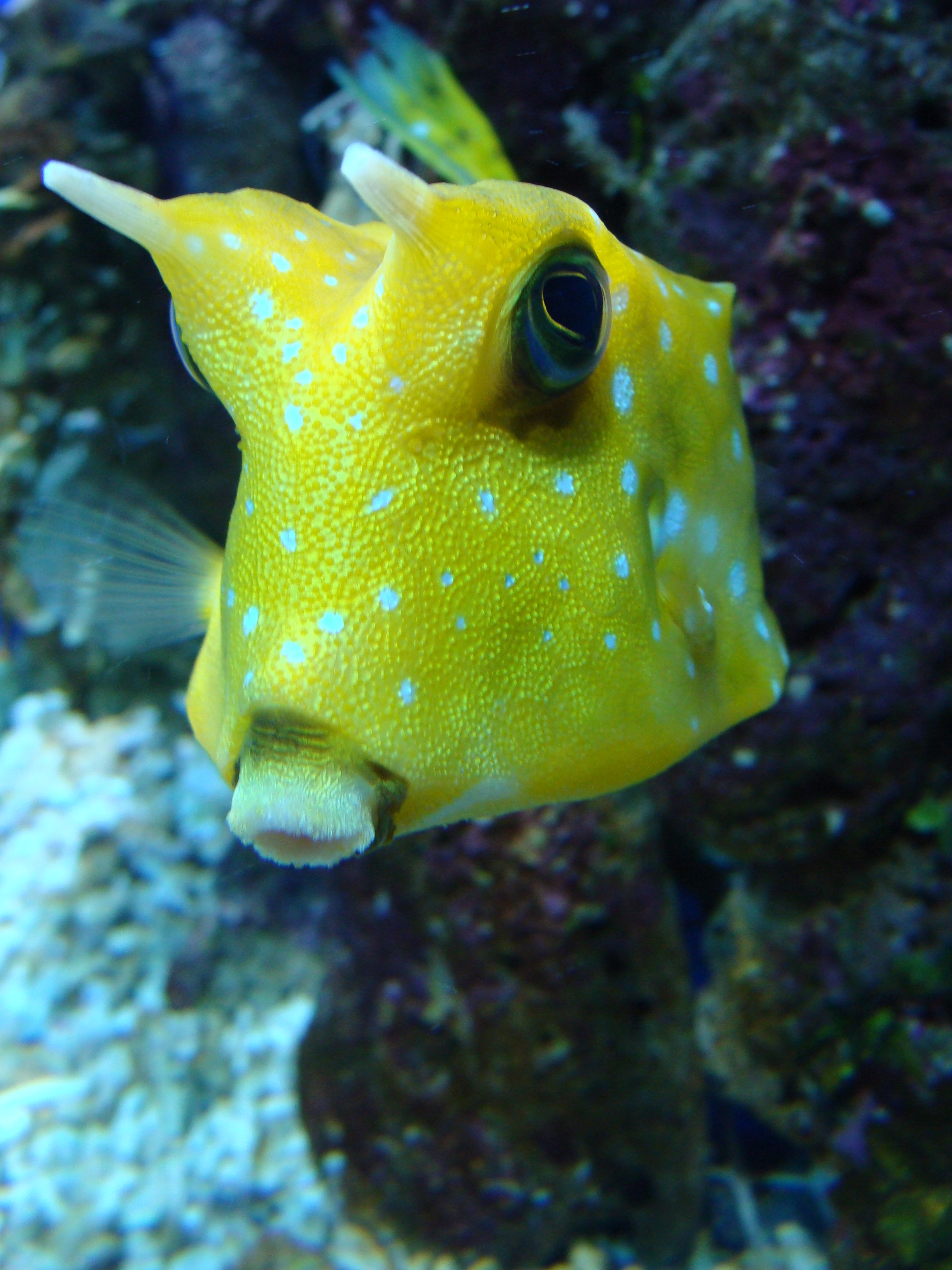 Lactoria cornuta (Longhorn cowfish) in Sala Humboldt of Aquarium Finisterrae (House of the Fishes), in Corunna, Galicia, Spain.